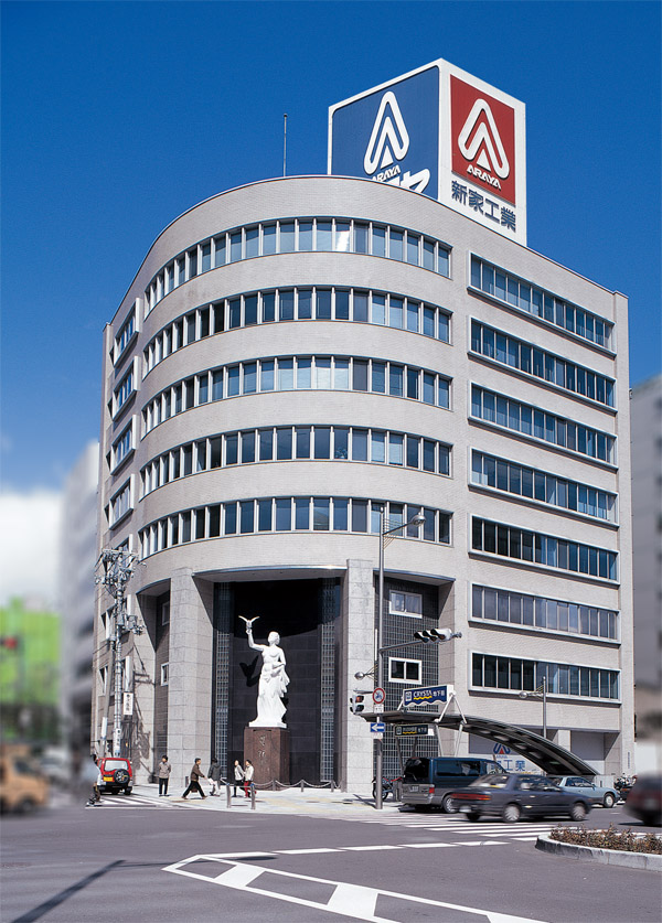 araya building